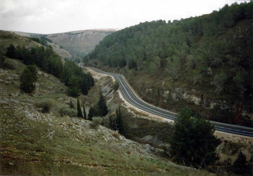 A very memorable ride. This was taken somewhere between Gornot HaGalil and Sasa.